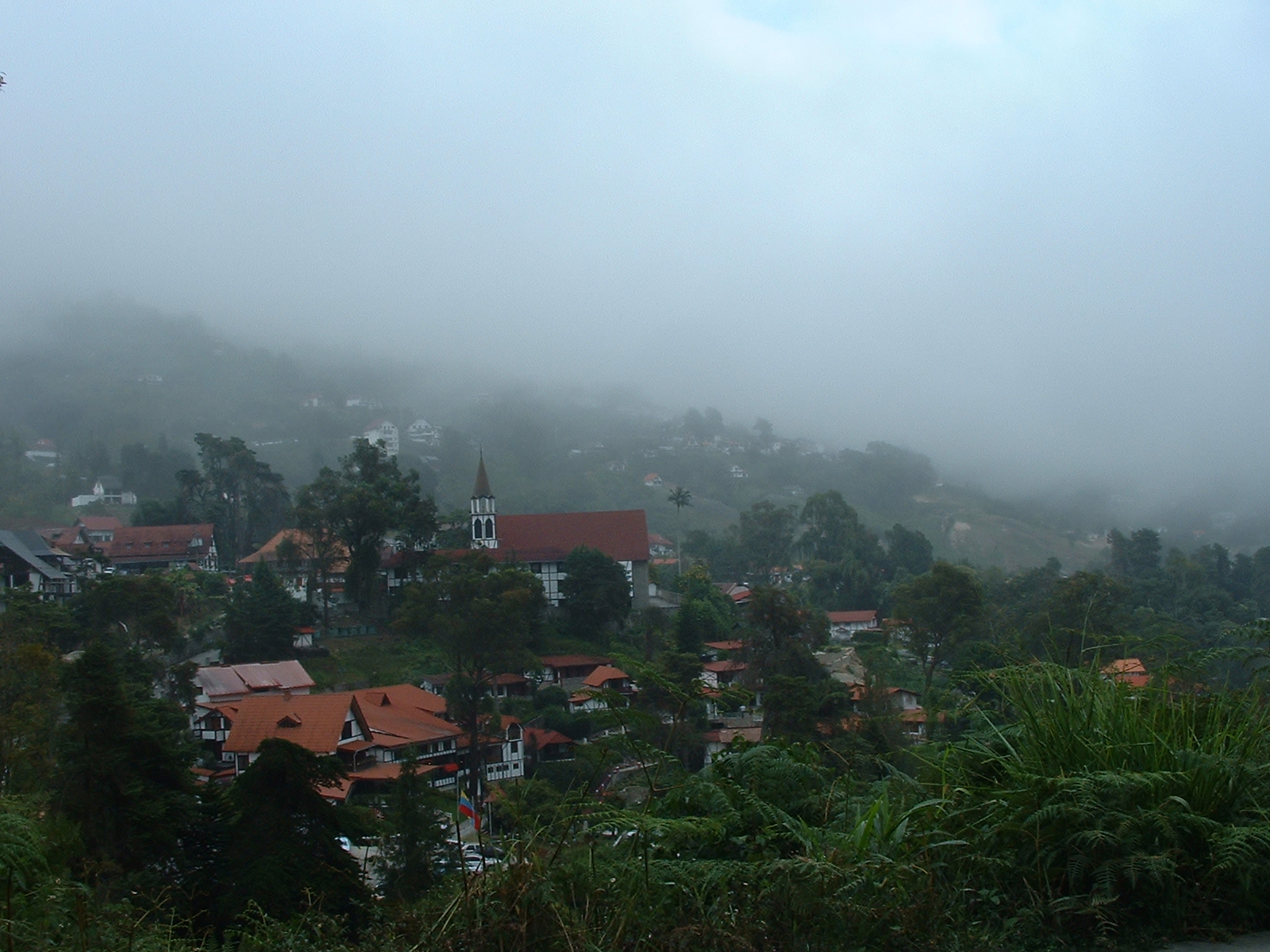 Panoramic view of La Colonia Tovar